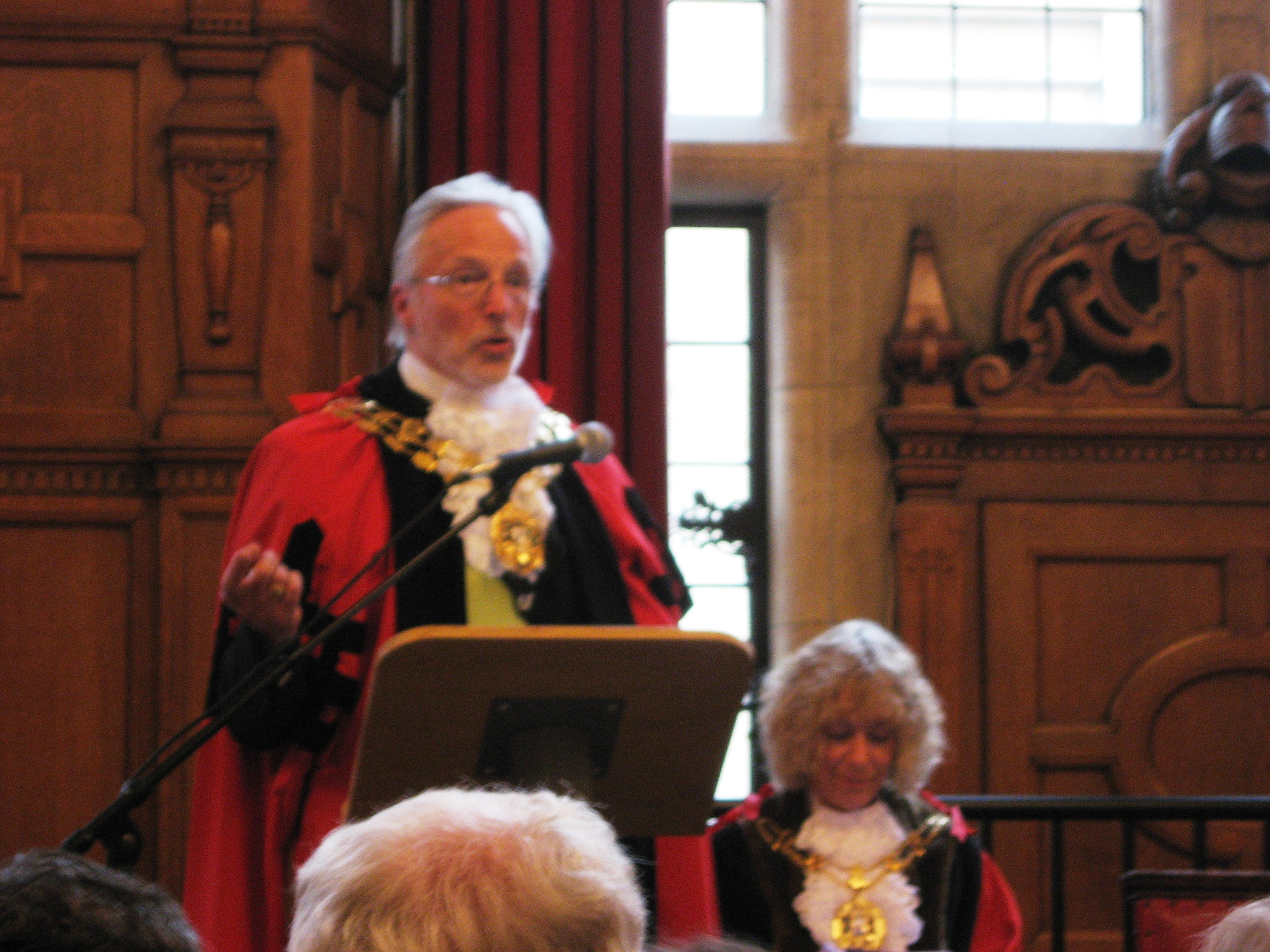 The Sheriff of Oxford for the civic year 2008/2009, Cllr John Goddard, speaking shortly after his election as such, with Cllr Susanna Pressel, Lord Mayor of Oxford, next to him. Assembly Room, Town Hall, Oxford.